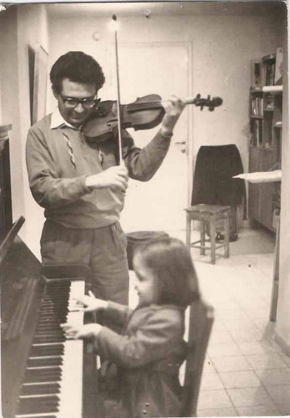 violinist Alexander Tal and pianist Michal Tal from Israel